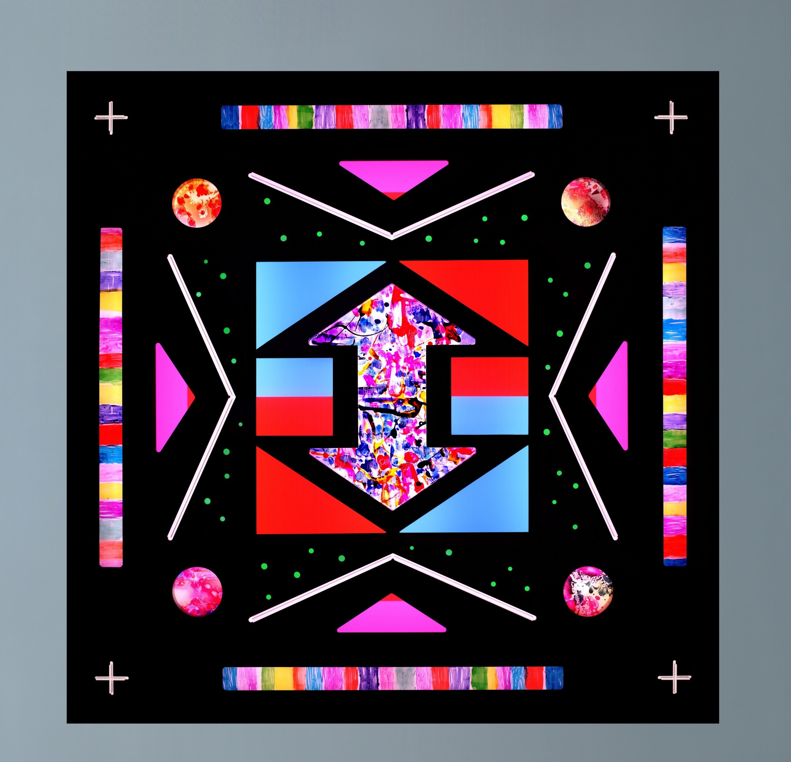 Directional by Mel Tanner is a lighted wall sculpture created in 1987